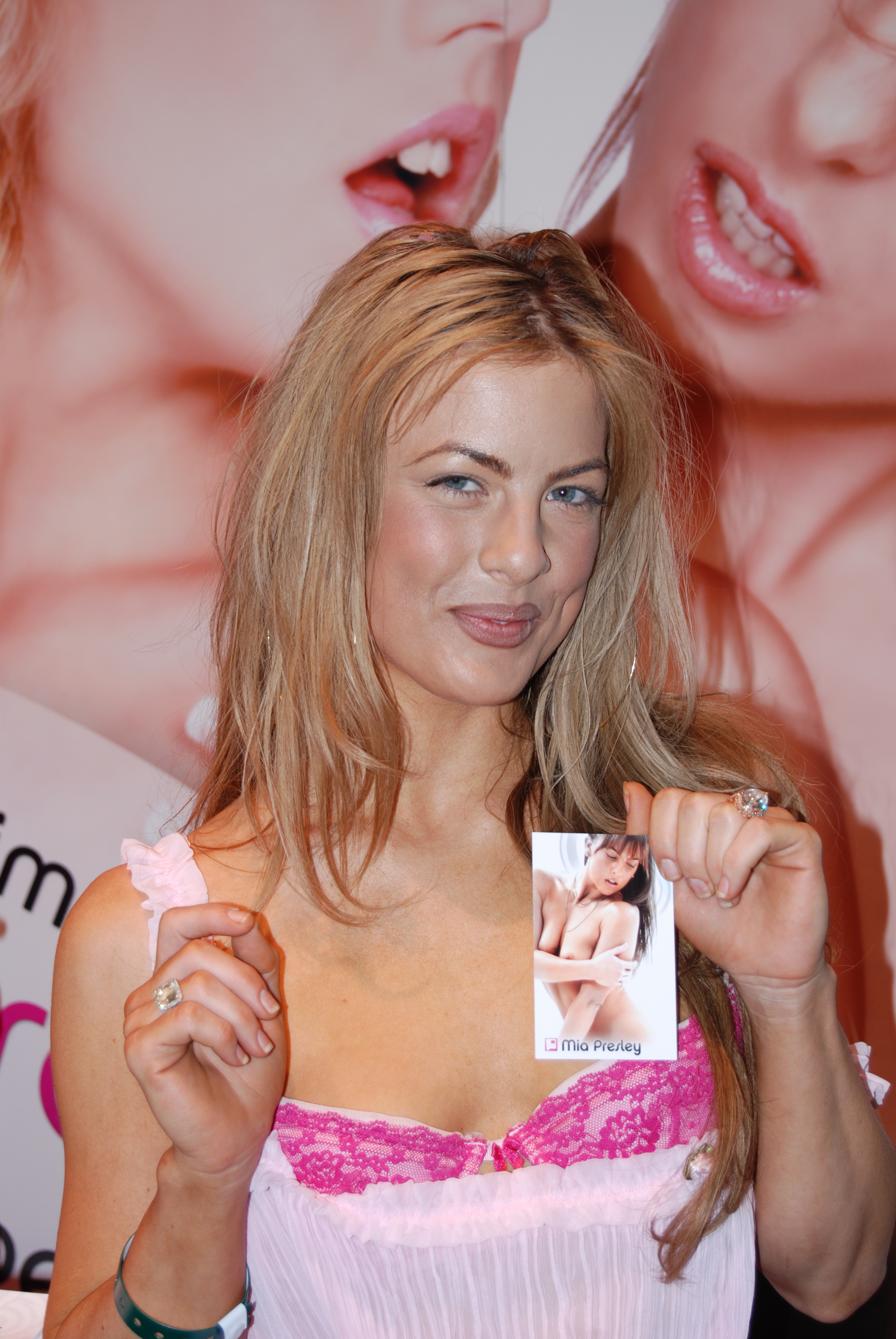 Mia Presley at AVN Adult Entertainment Expo 2008